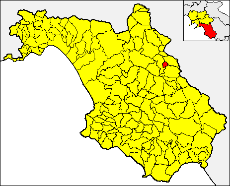 Locator map of the municipality of Pertosa (red) within the Province of Salerno